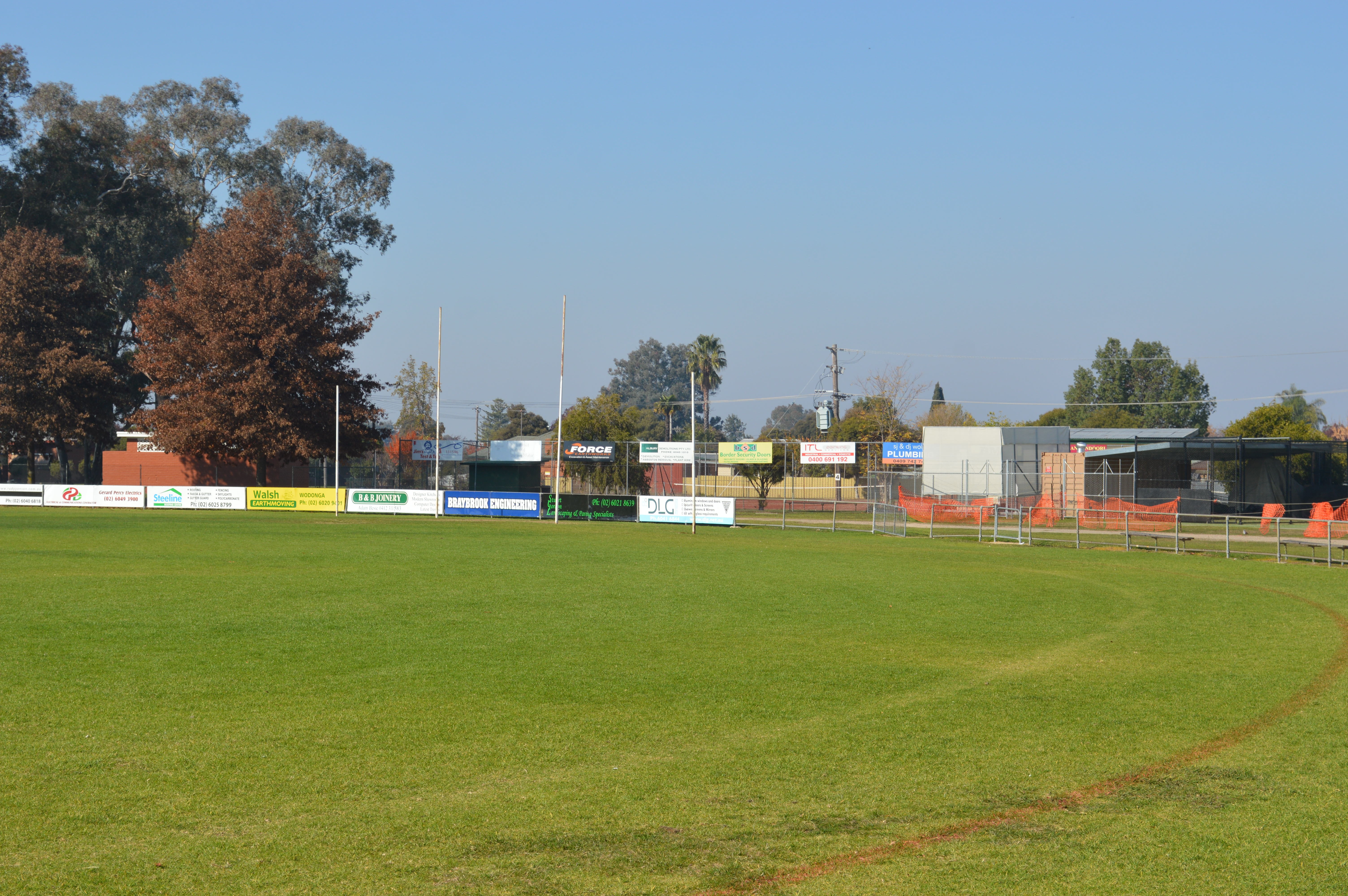 Urana Road Oval at Lavington, New South Wales